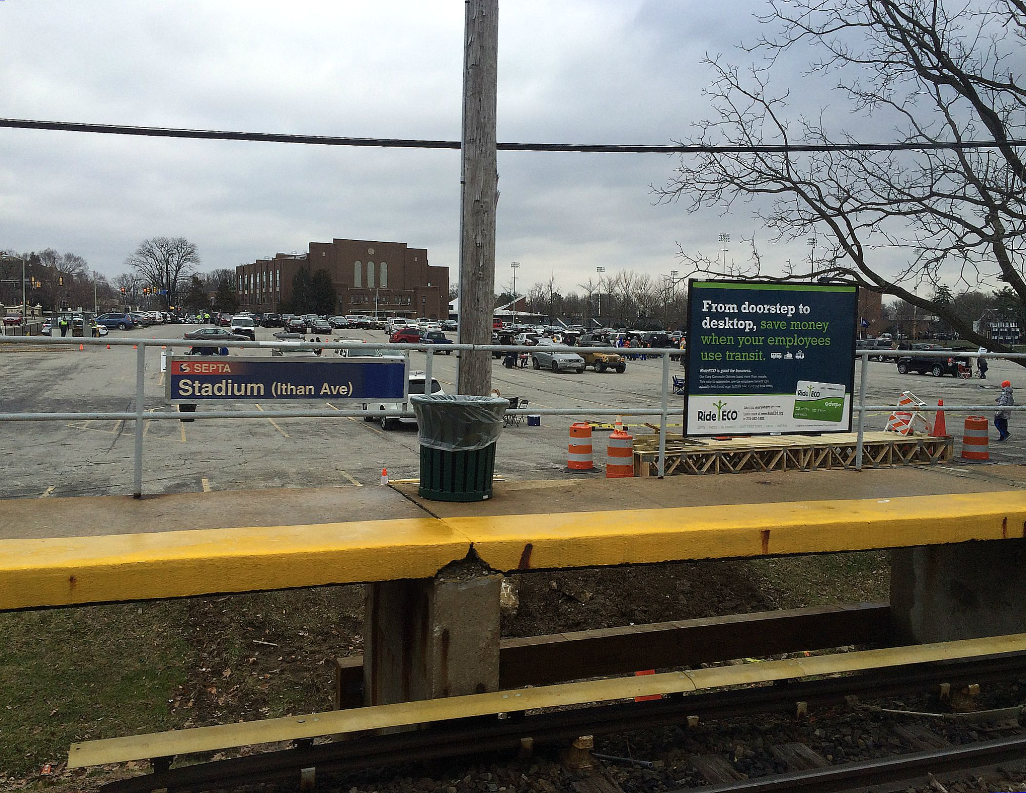 Northbound Platform of Stadium - Ithan Ave Station (NHSL)